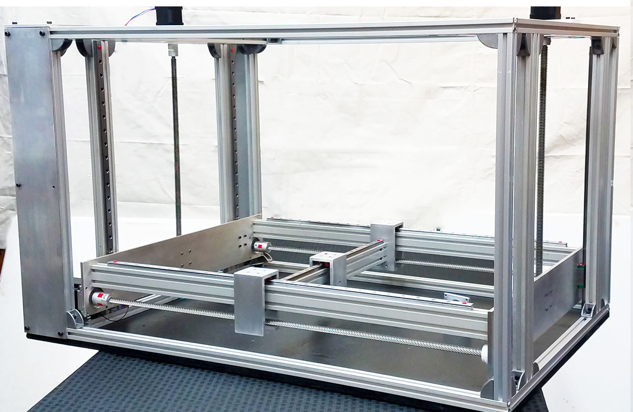 open modular 3d printer by 3D Distributed